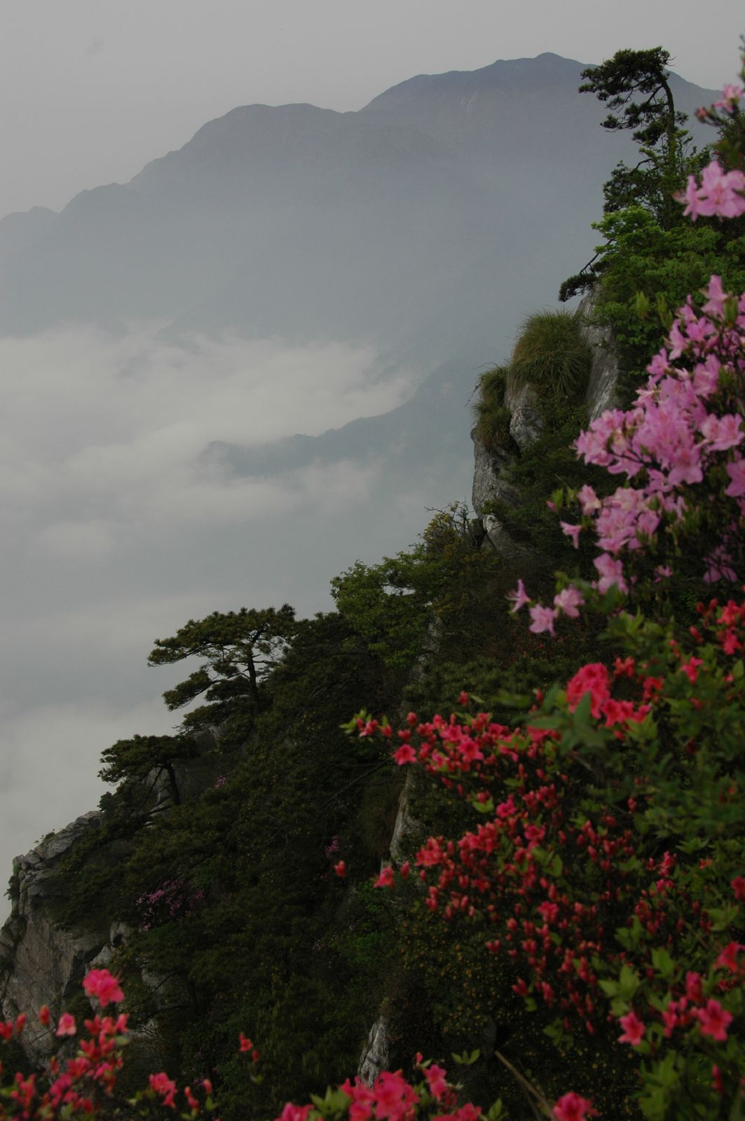 Trees in bloom at Lushan Geopark